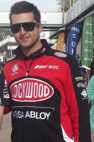 Fabian Coulthard doing a fan photo (with me) at 2012 Hamilton 400